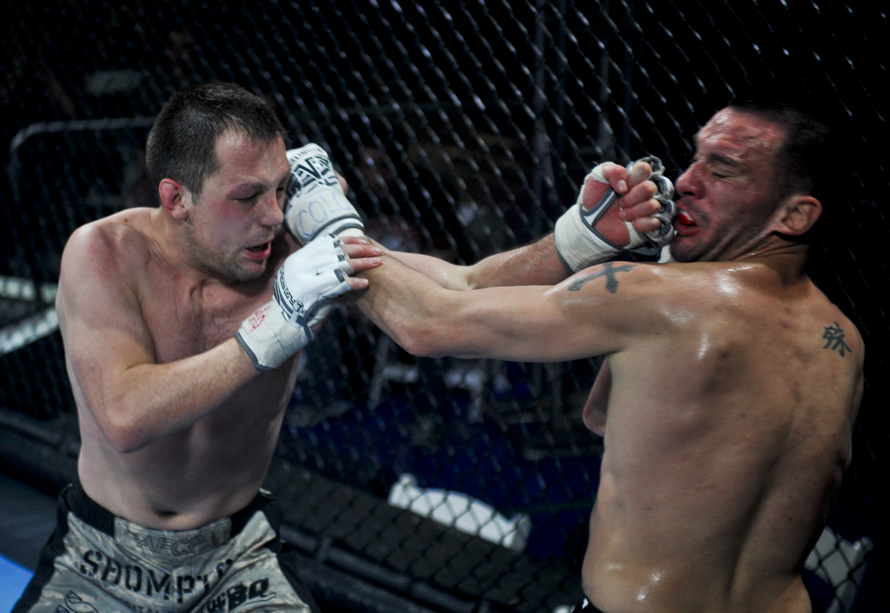 Tyler “Thunder” Toner, left, punches Cody Carrillo in the final bout of the Buckley MMA Fight Night Feb. 9, 2013, at the Buckley Air Force Base Fitness Center. USTREAM covered the fight night which was offered on pay-per-view; proceeds benefited the Wounded Warrior Project.